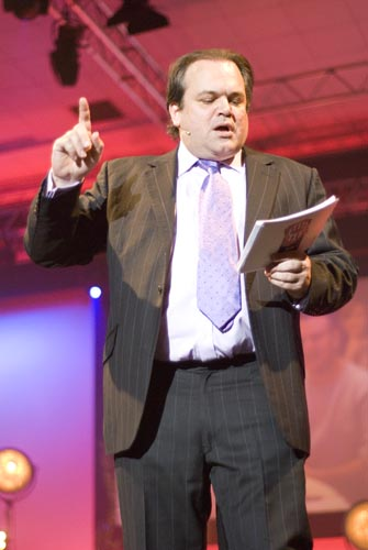 Sean Williamson hosting a corporate event